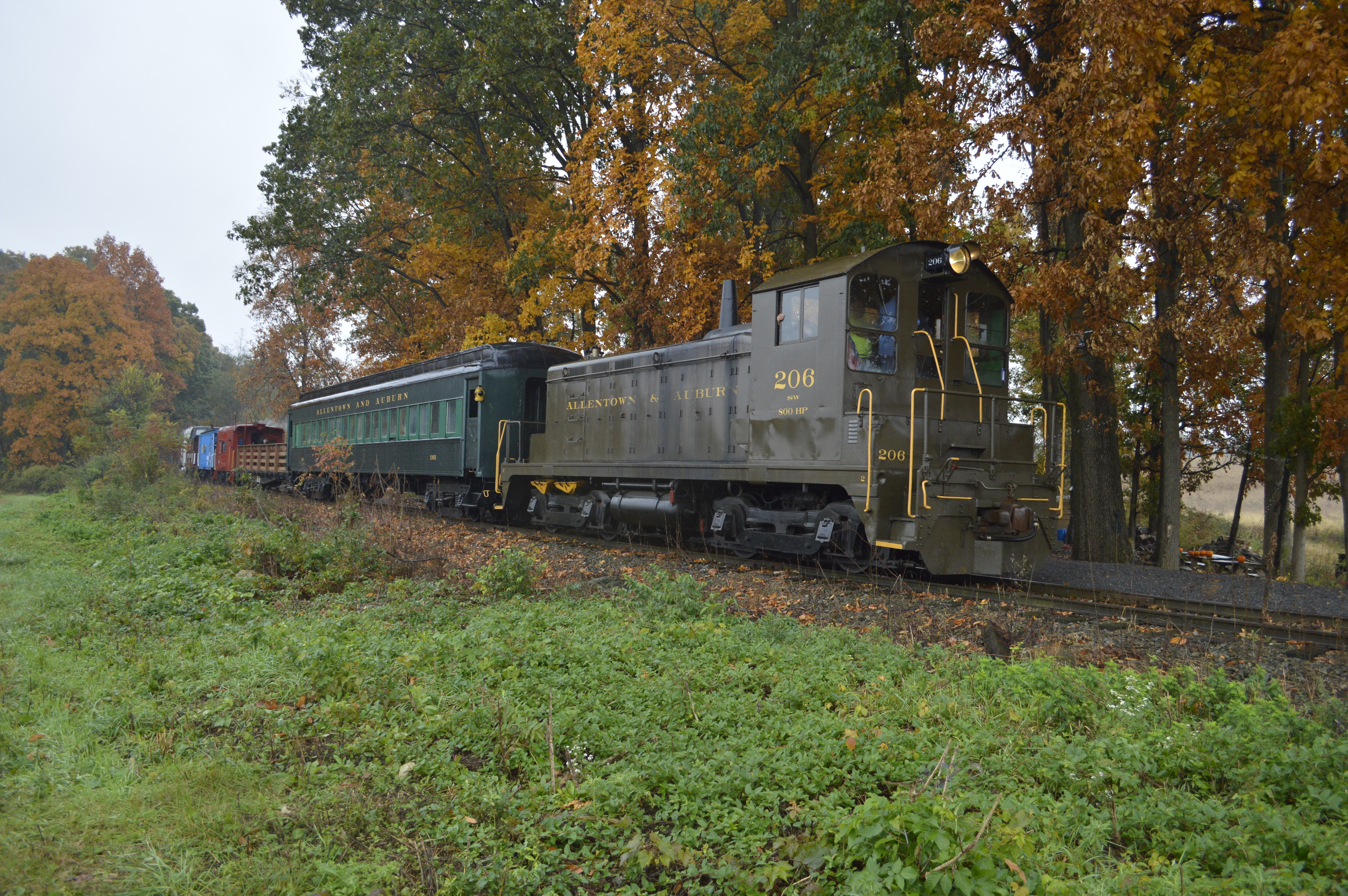 Allentown and Auburn Railroad 206 arriving at their Picnic Grove.